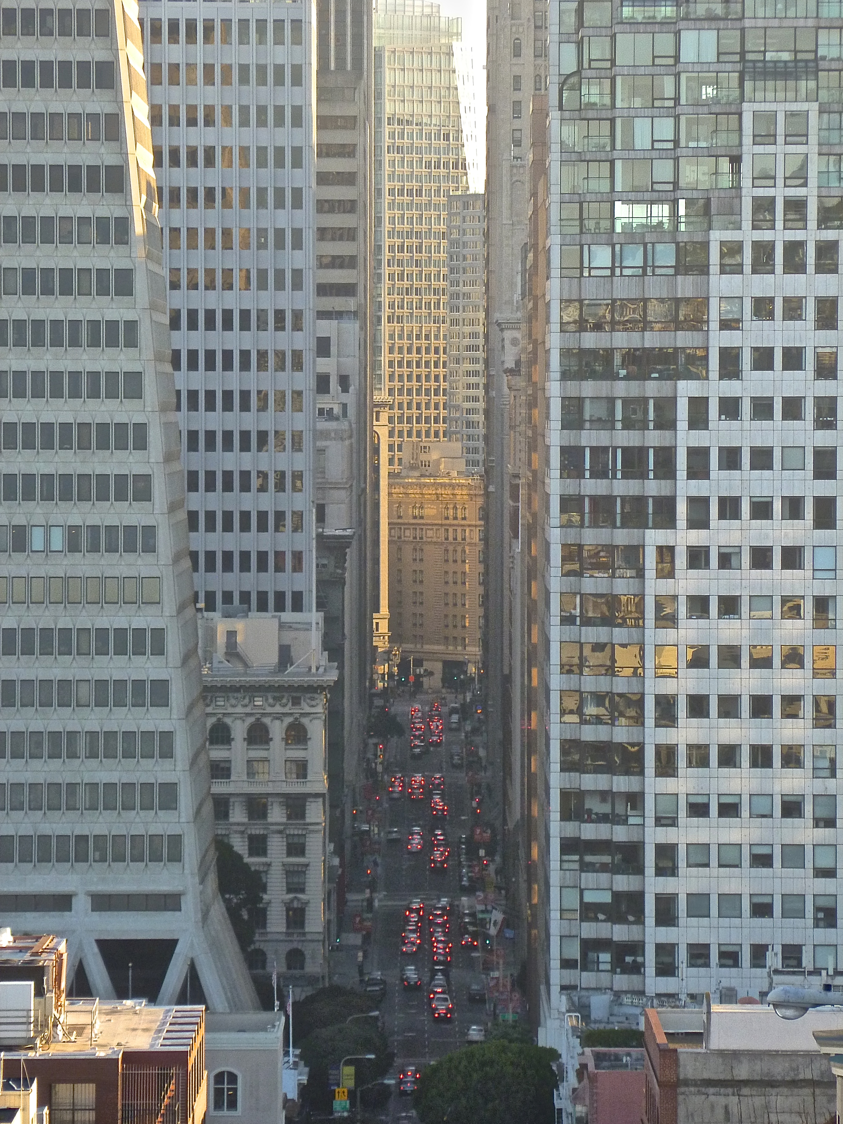 Photo taken near Green and Montgomery on Telegraph Hill in San Francisco, looking south down Montgomery Street.